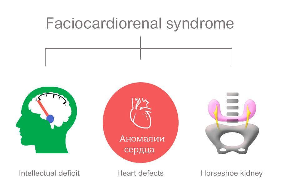 Faciocardiorenal syndrome